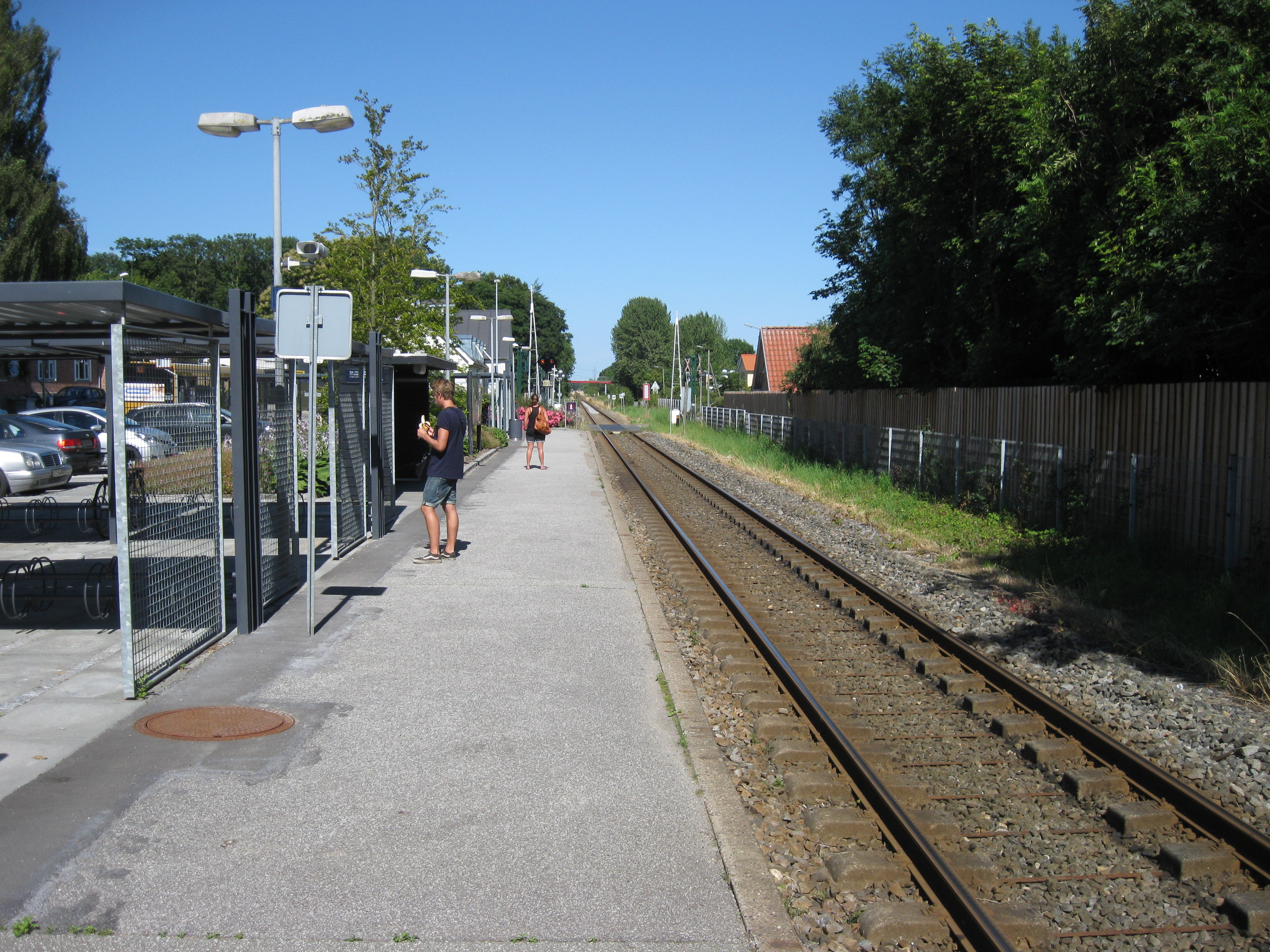 Hjortshøj train station, Denmark